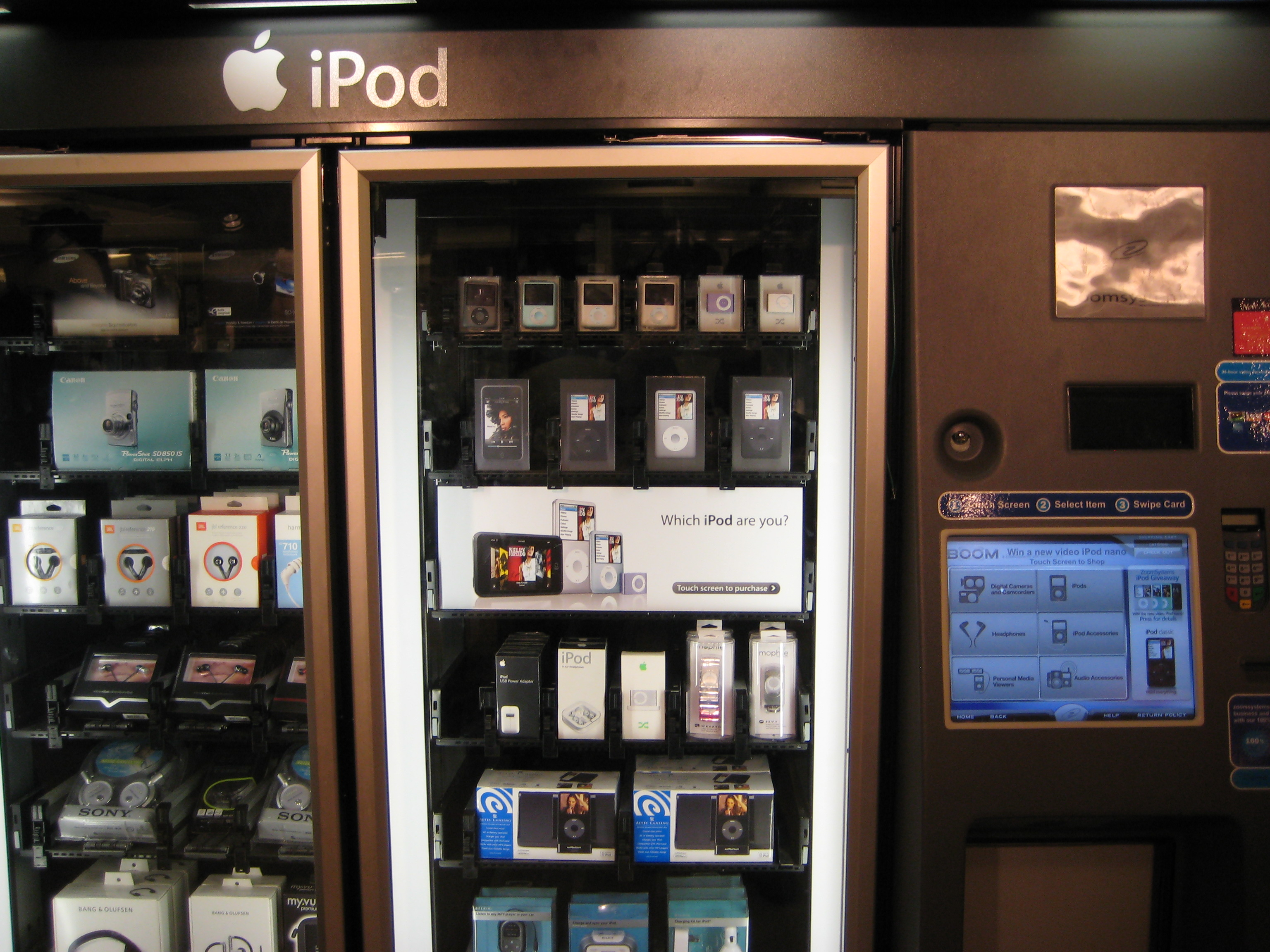 iPod vending machine.